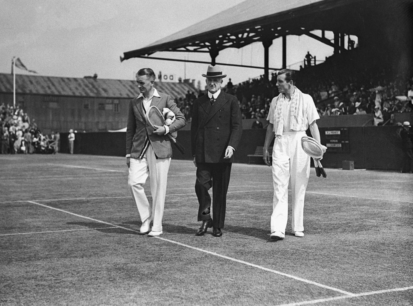 Australian tennis player Jack Crawford (left) and British tennis player Fred Perry (right) at the White City Stadium in Sydney, Australia with a senior tennis offical (center)